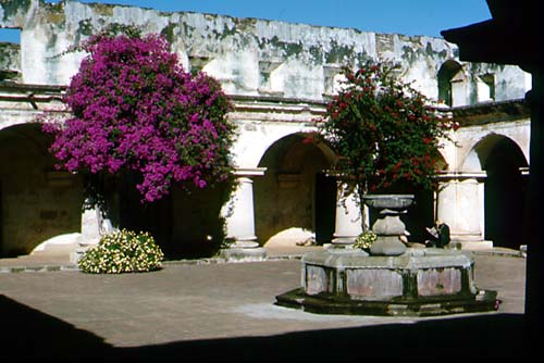 Convent, Antigua Guatemala R Villalobos March 2005